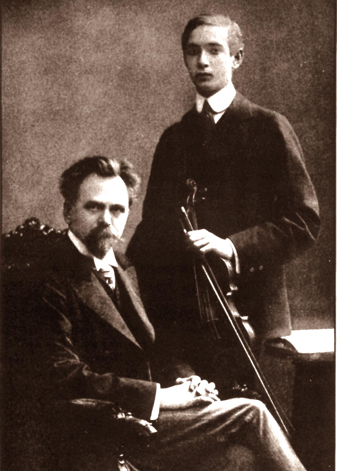 Portrait of Hungarian violinist Joseph Szigeti with his teacher, Jenő Hubay, circa 1910. Photographer unknown, image is nearly 100 years old.